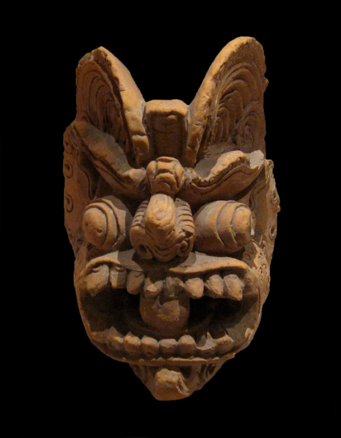 Dragon head. Terracotta, Lý dynasty, 11th-13th century. Architectural decoration. National Museum of Vietnamese History, Hanoi.